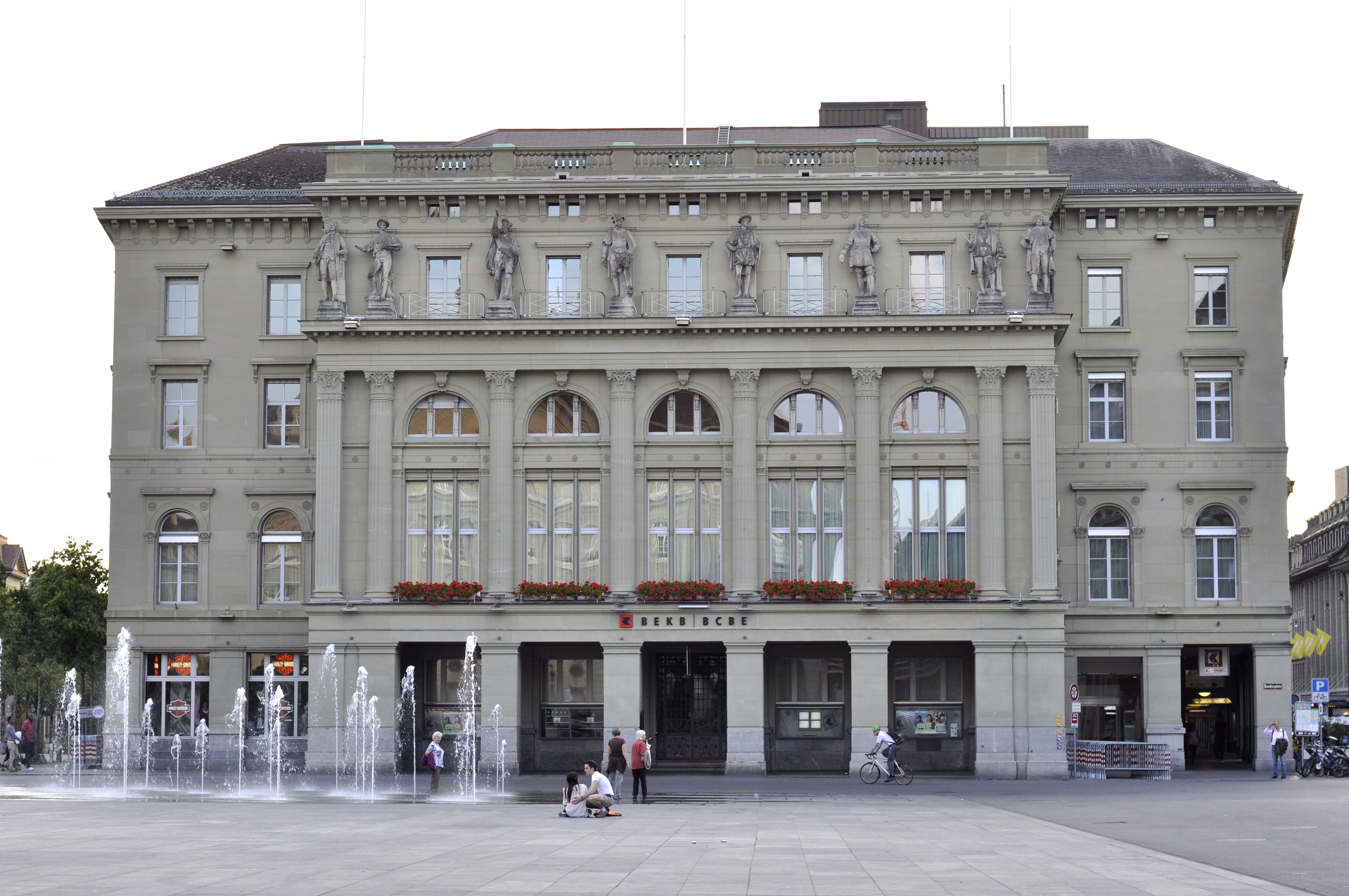 The building of the Bernese cantonal bank in Berne